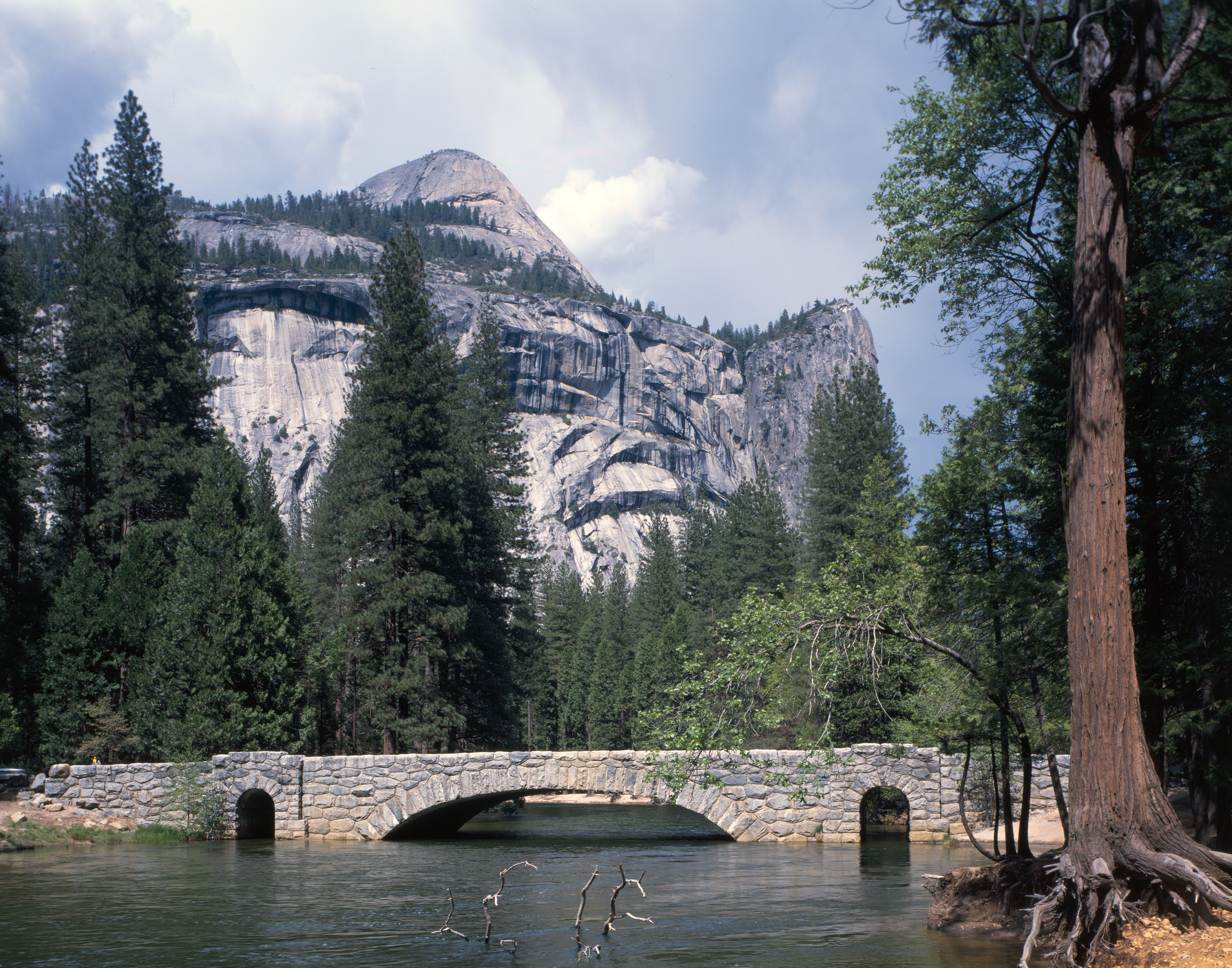 Stoneman Bridge over the Merced River in Yosemite Valley. One of the Yosemite Valley Bridges on the National Register of Historic Places in Yosemite National Park.